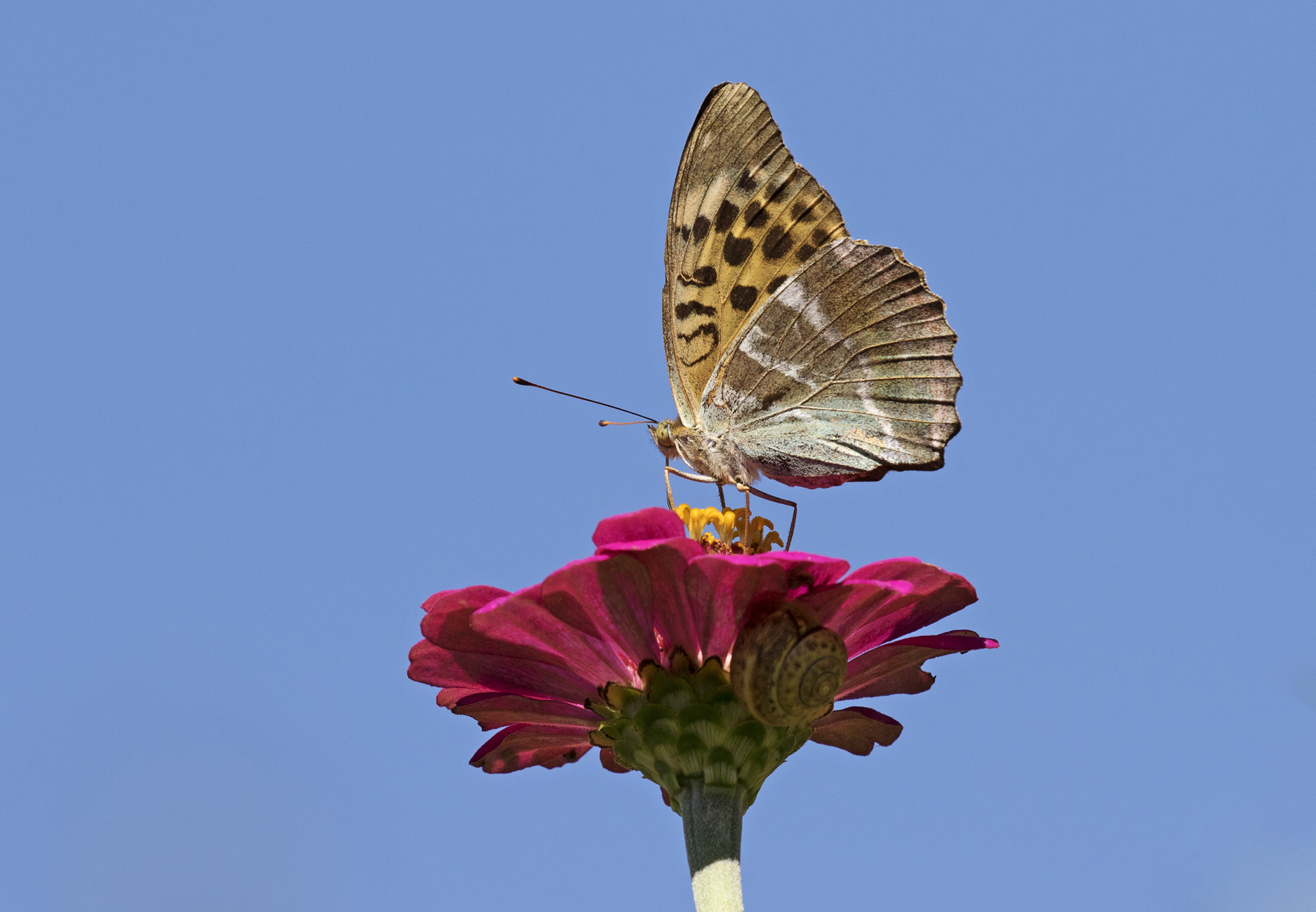 A female Silver-washed Fritillary (Argynnis paphia) butterfly feeding on a pink zinnia (Zinnia sp.) flower. Espiye - Giresun, Turkey.